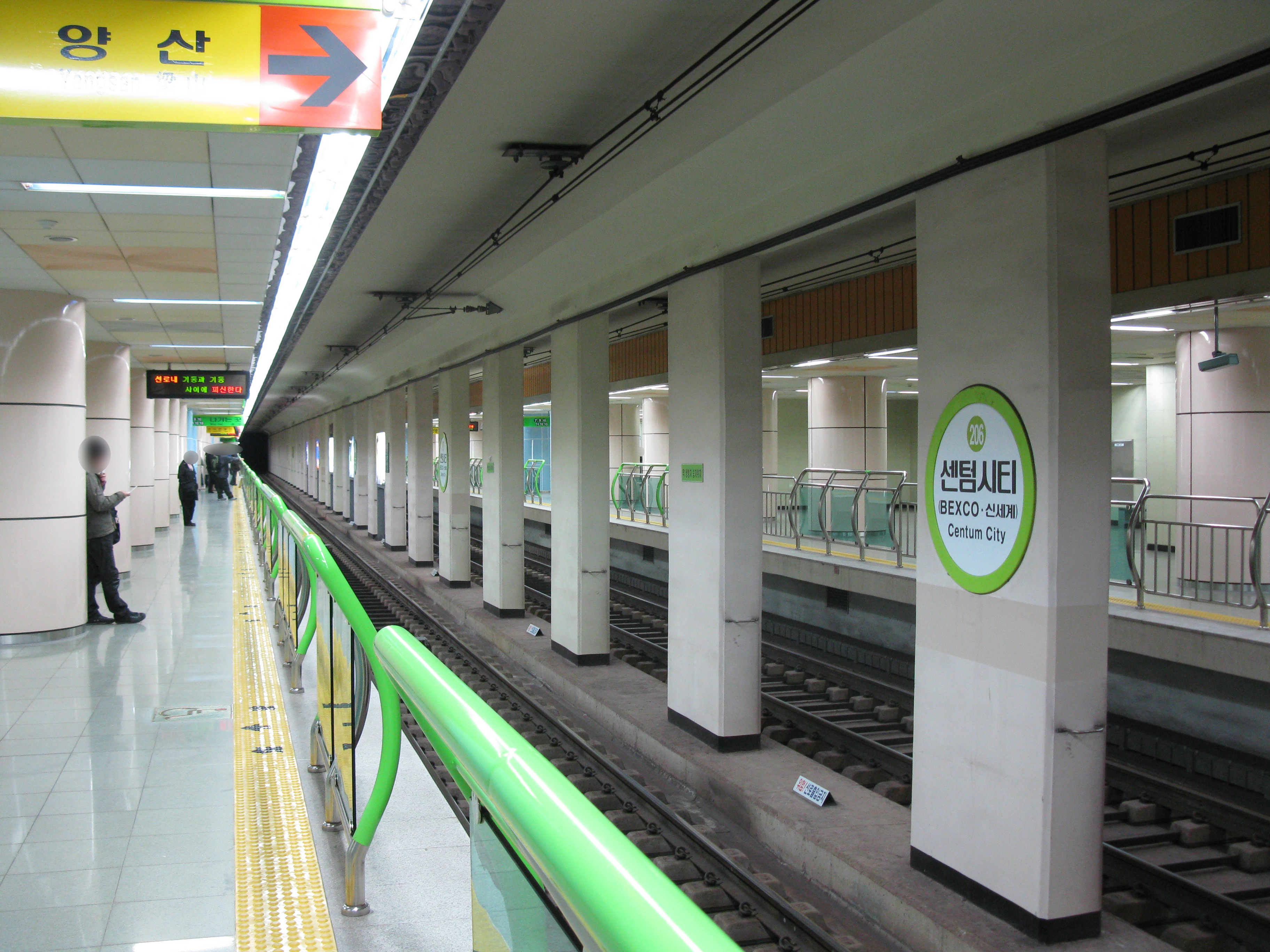 The platforms at Centum City Station on the Busan Subway Line 2 in Haeundae-gu, Busan, Republic of Korea(South Korea)